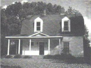 The house of the leader of the Night Riders, Dr. David Amoss. This restored home is located in Cobb, KY, in southern Caldwell County.